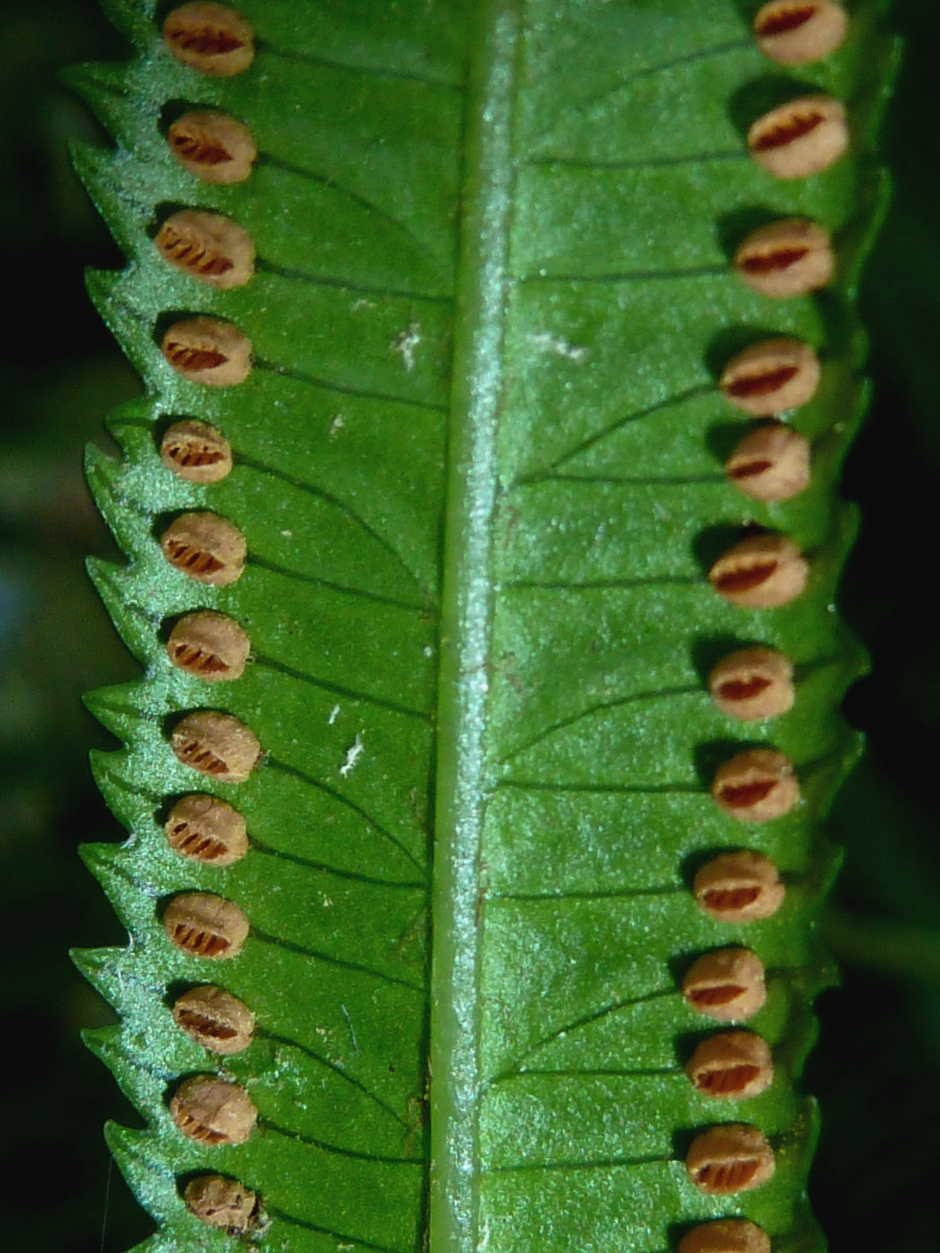 Sori of a Willow-leaf ash fern on the bank of the mPhiti stream in the Iphithi Nature Reserve in Gillitts, KwaZulu-Natal